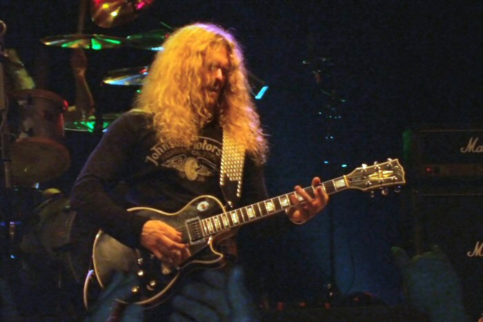 John Sykes of Thin Lizzy at the Music Hall in Aberdeen Scotland on 1st December 2007